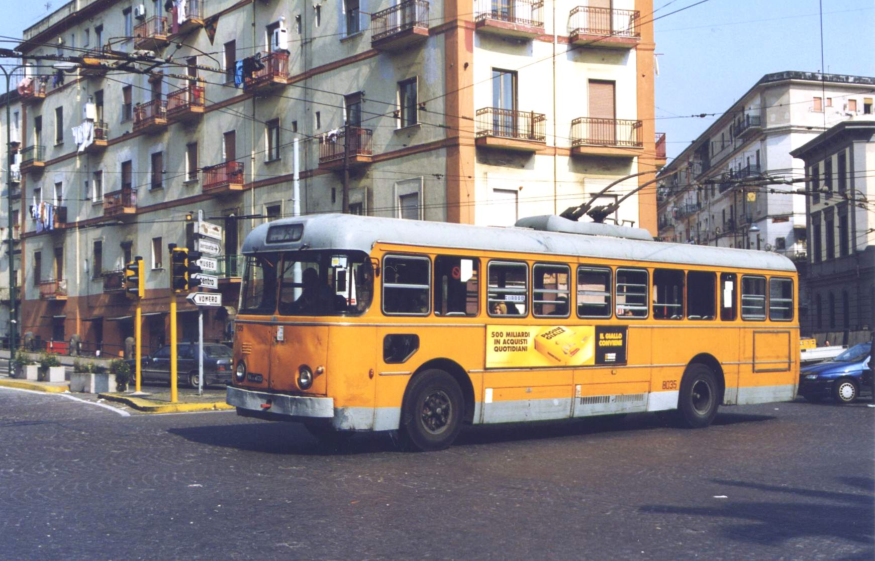 1961 Alfa Romeo 1000 trolleybus No. 8035 of the Naples ANM trolleybus system at the northeast end of Piazza Carlo III (passing the southwest end of Via Don Bosco), on route 254. ANM's last Alfa Romeo trolleybuses were retired at the beginning of March 2001.